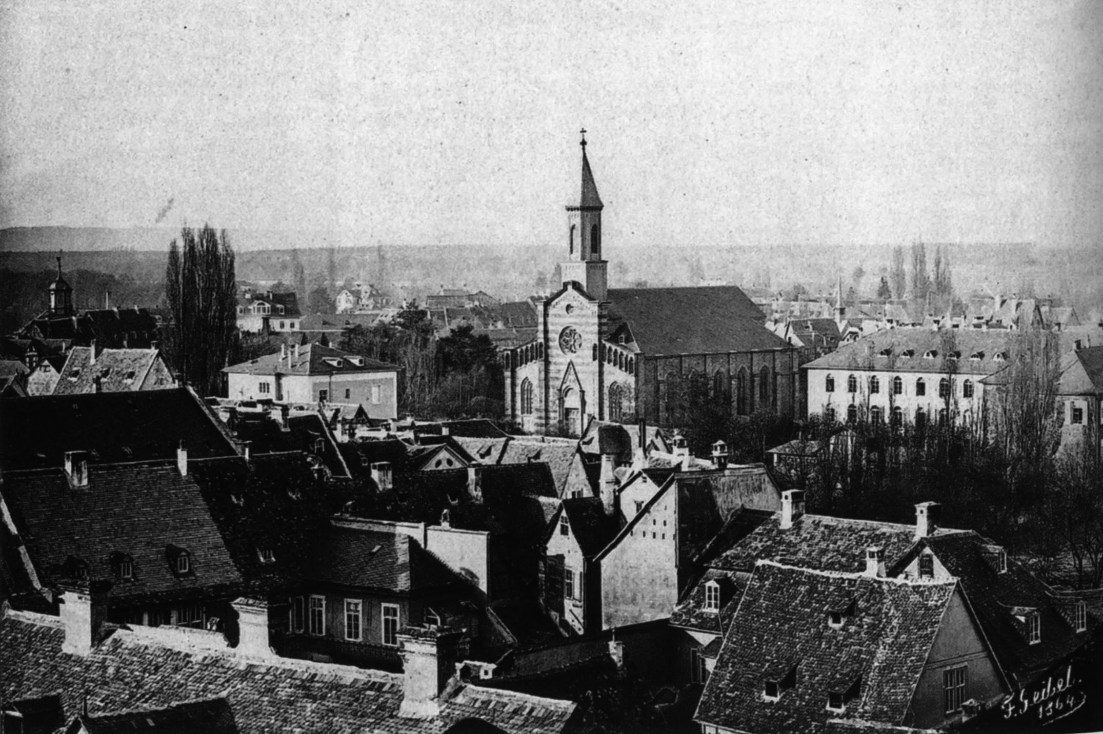 Hanau, rk church Mariae Namen